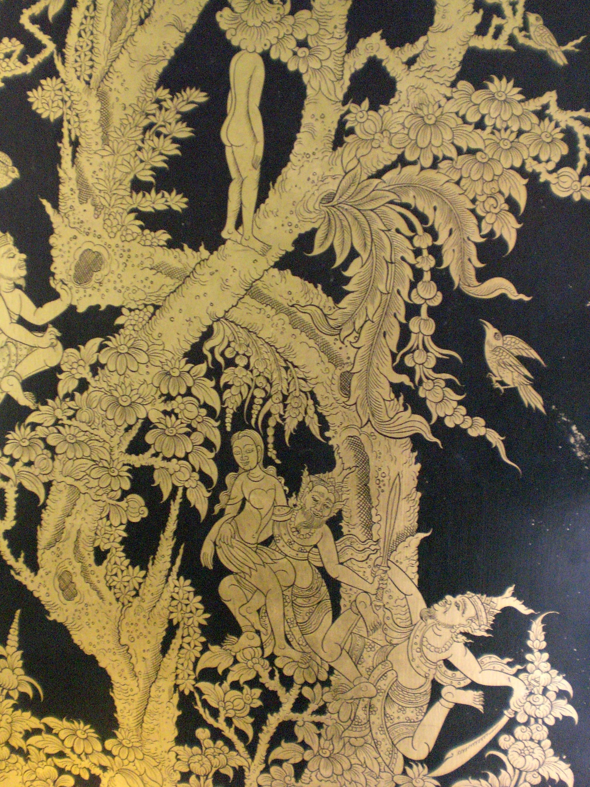 Thai drawing of Naripon Phra Pathom Chedi